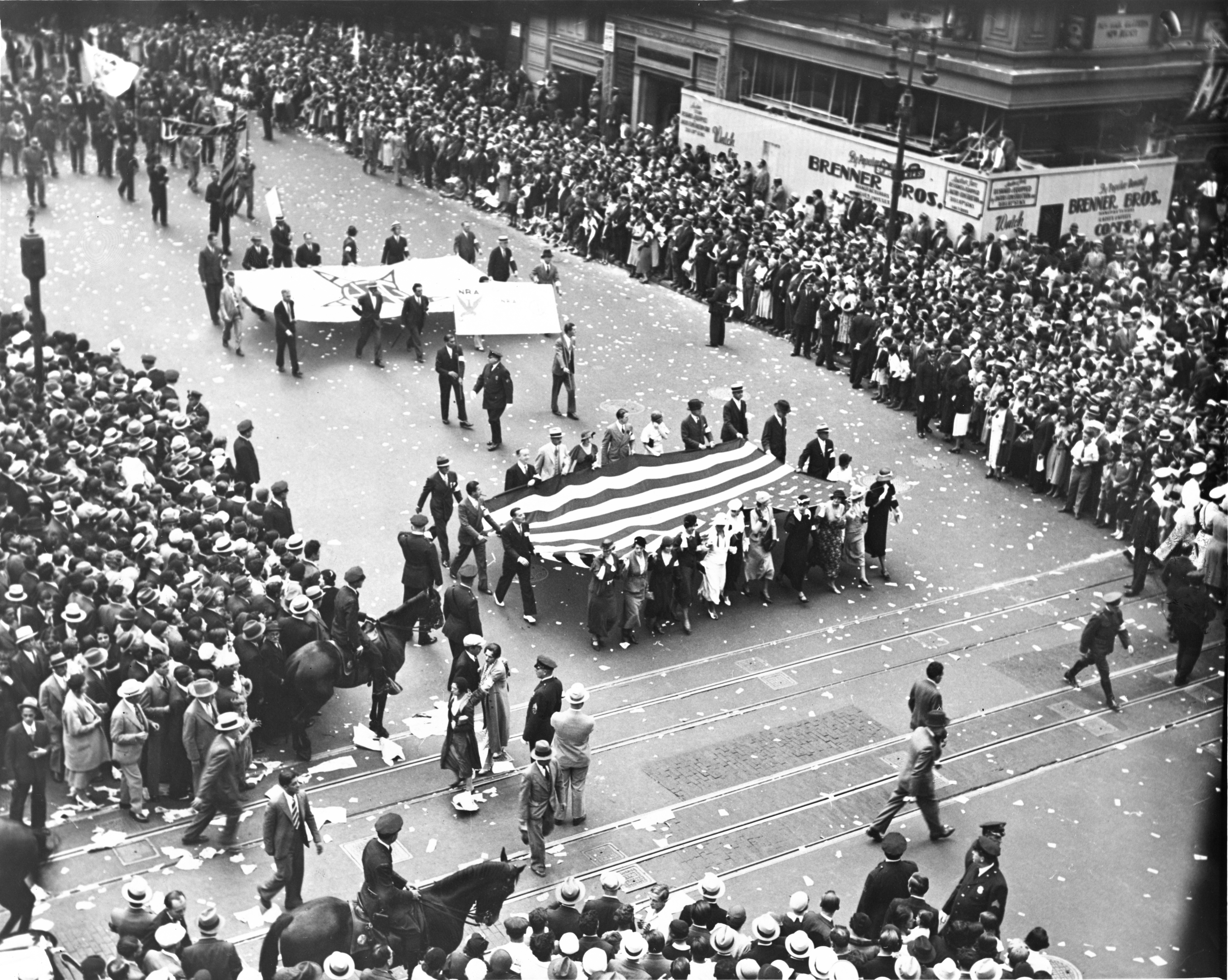 Title: [Female film industry workers carrying a large American flag as part of an National Recovery Administration parade, New York City]